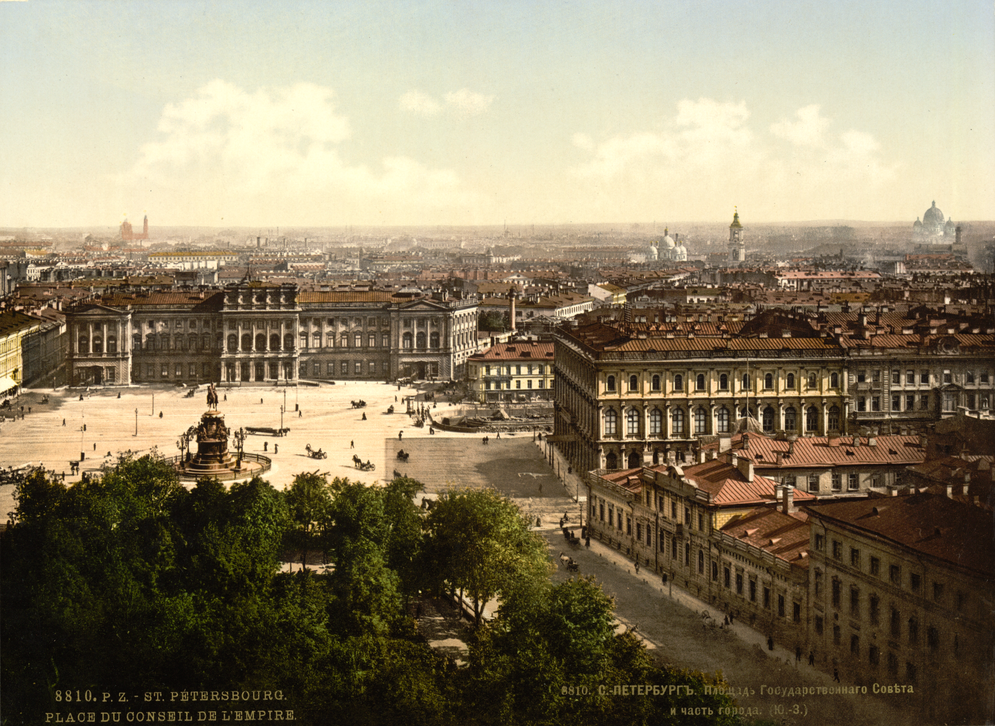 Place of the Imperial Council, West Side, St. Petersburg, Russia. – Monochrom image of St Isaac's Square and the Saint Petersburg skyline, 1890s.